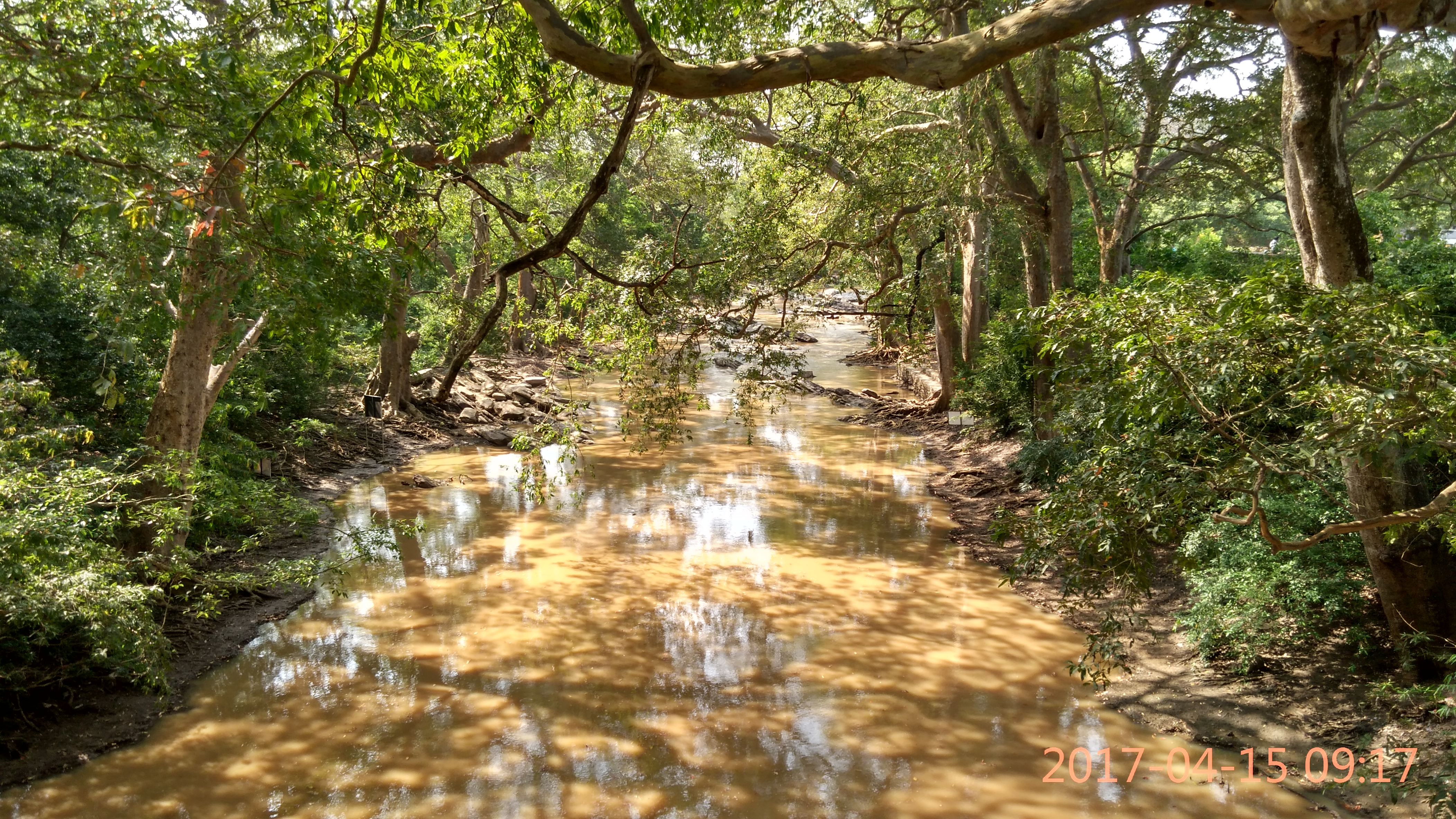 Photo of Menik River taken at Katharagama